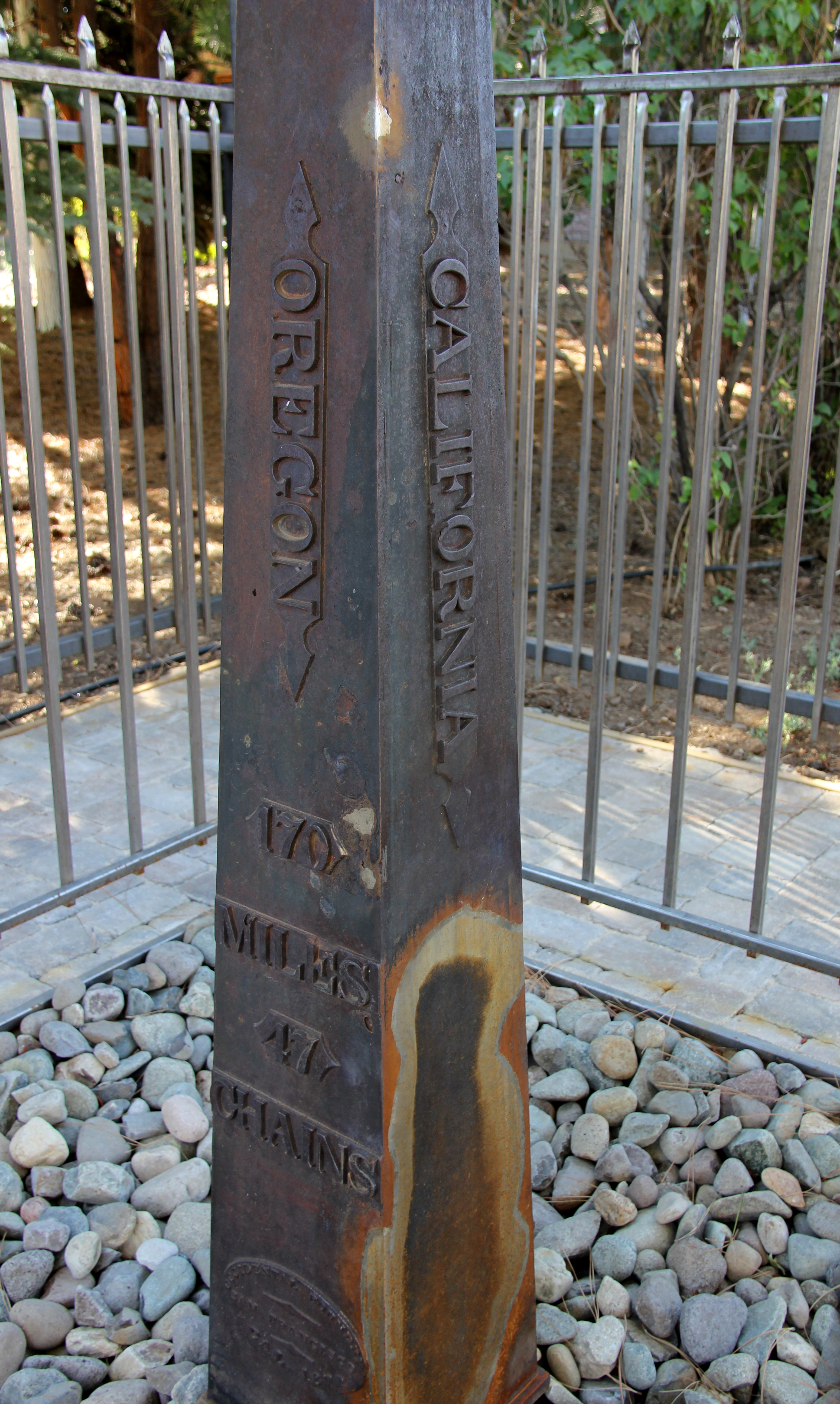 1872 California-Nevada State Boundary Marker, Northwest of Verdi on the California/Nevada border Verdi